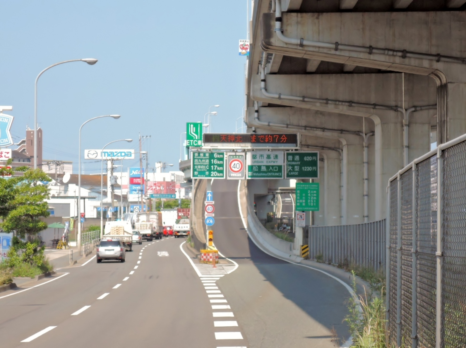 Matsushima Interchange on the Fukuoka Expressway Kasuya Route